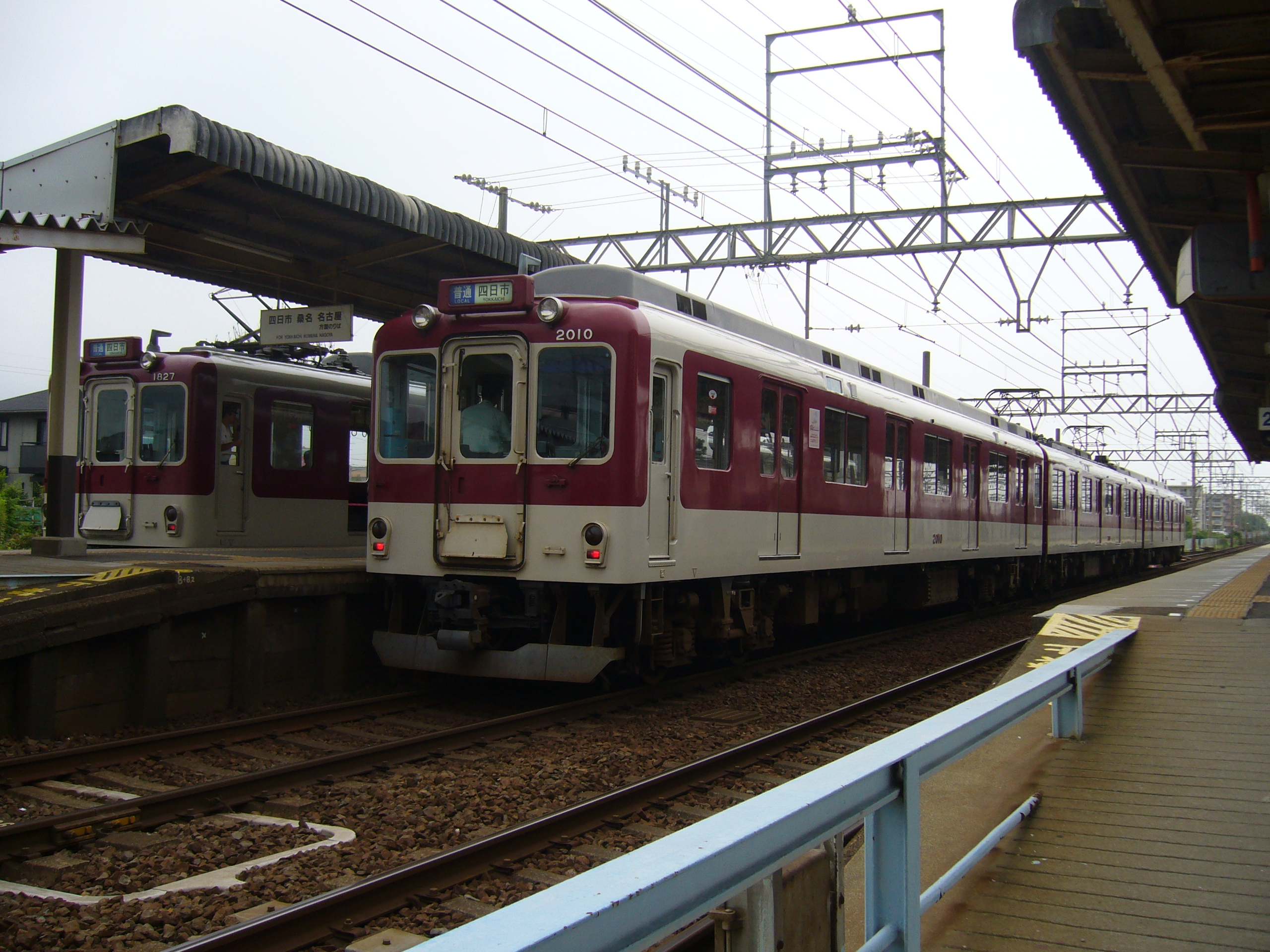 This is a picture of Shiratsuka station platform,Kintetsu Nagoya Line.I took it on the platform where people take the train for Ise-Nakagawa.